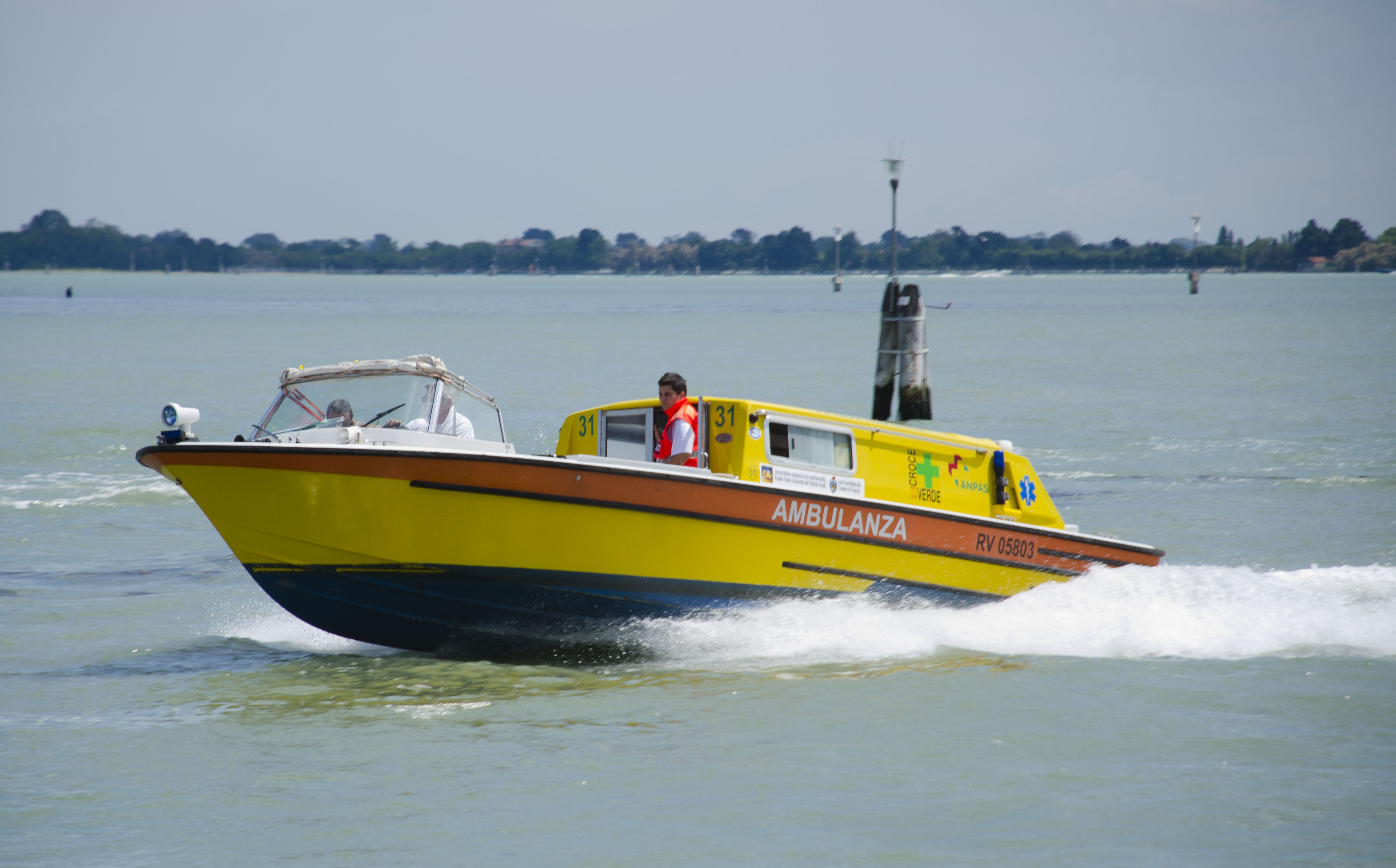 Ambulance boat, Venice